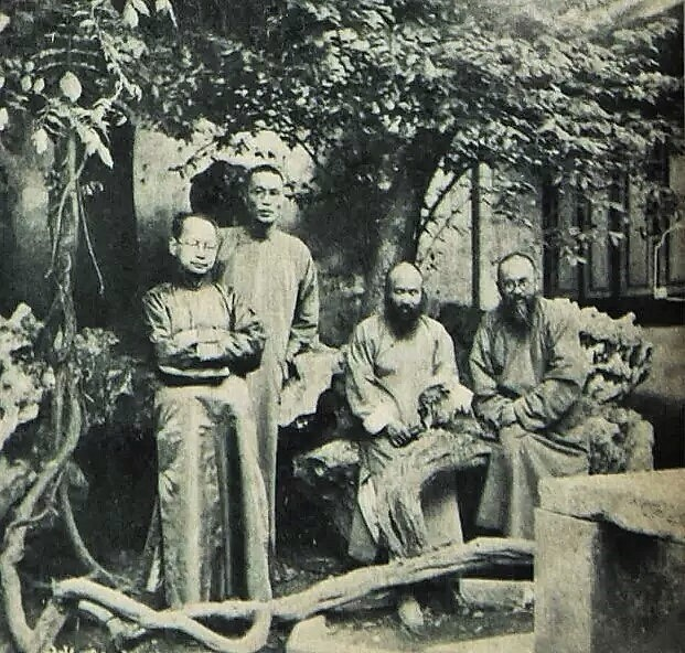 An old photo